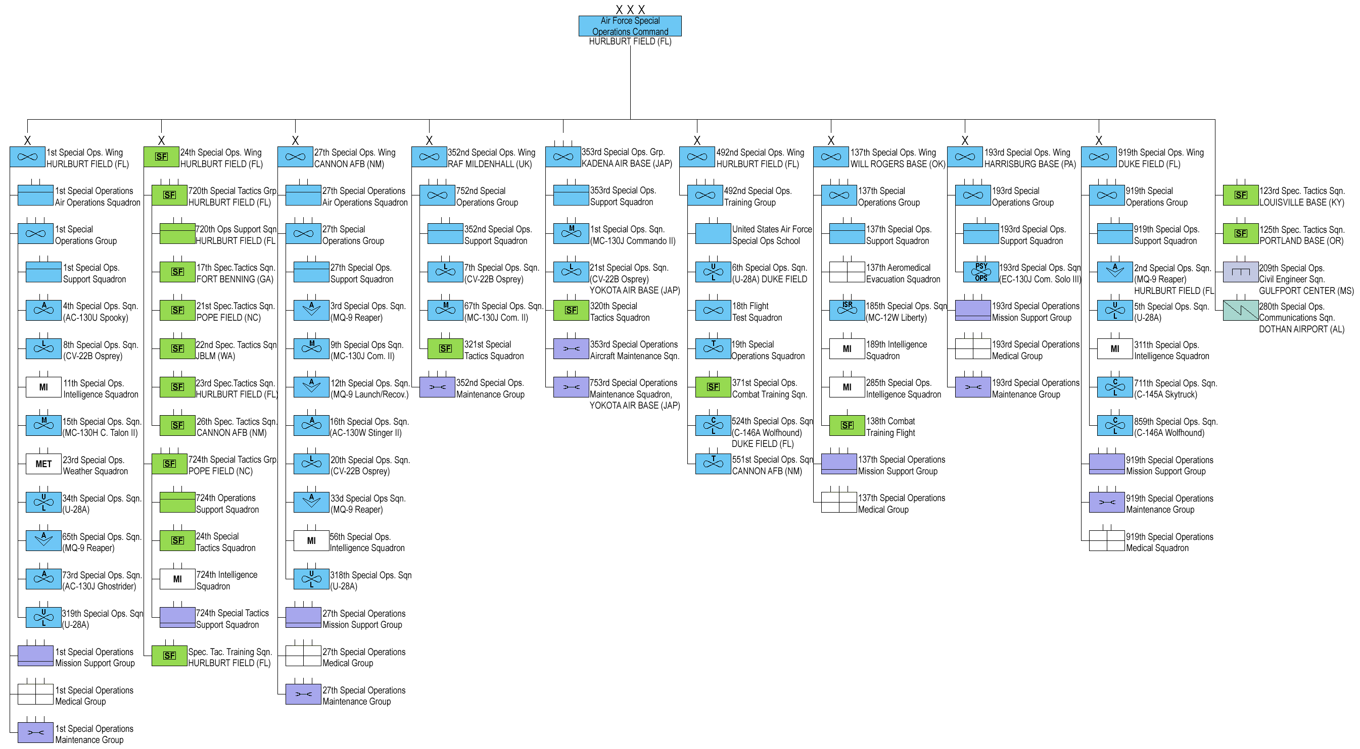 United States Air Force Special Operations Command OrBat 2009